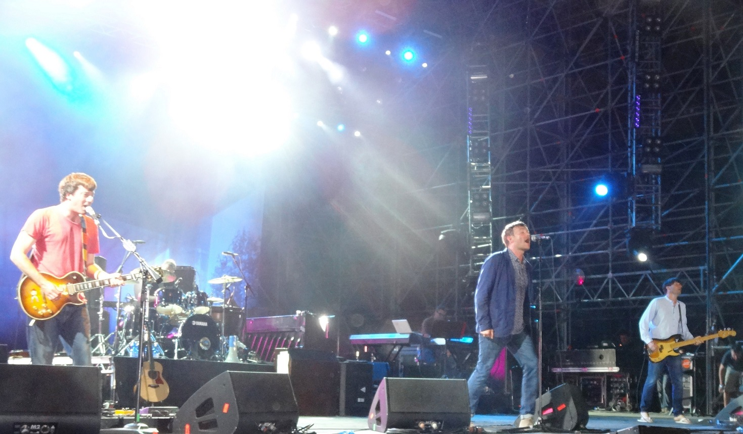 Blur live 29/07/2013 in Rome - Rock in Roma